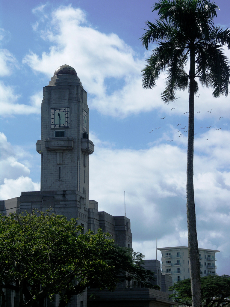 Clock Tower, Albert Park, Suva